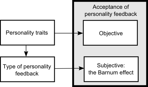 A conceptual model illustrating the relationship between personality traits and the Barnum effect, taking the typo of personality feedback into account.